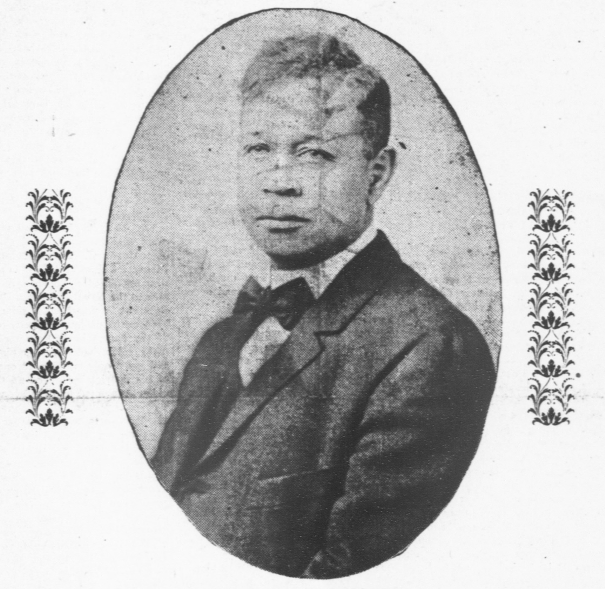 Oscar De Priest, May 13, 1922.